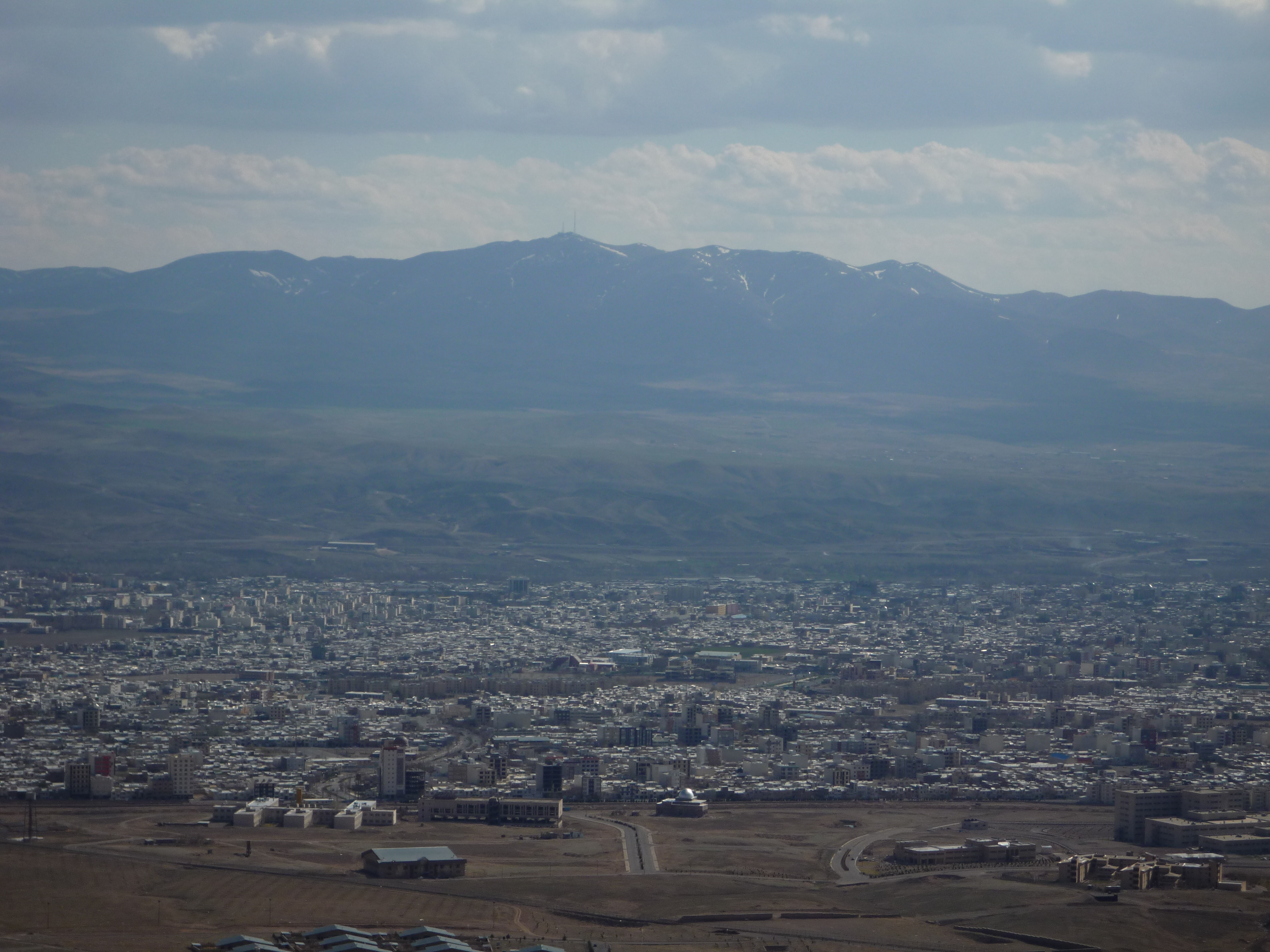 View over the Zanjan from top of Gavazang mountain